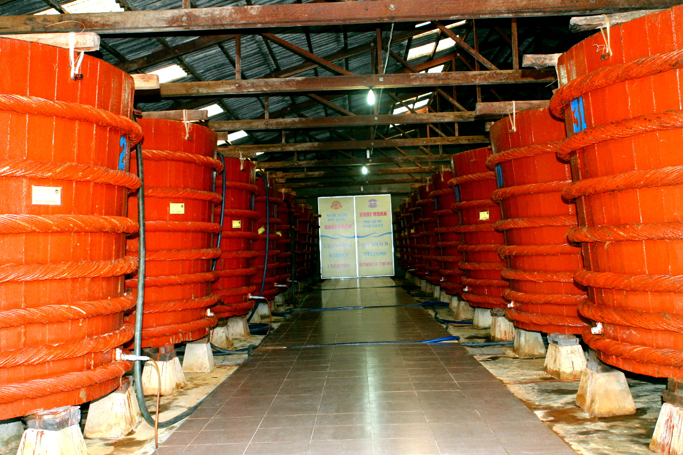 Vats at a Fish Sauce Factory on Phu Quoc Island in Vietnam. Salted Anchovies ferment for 8-9 months to create natural fish sauce.